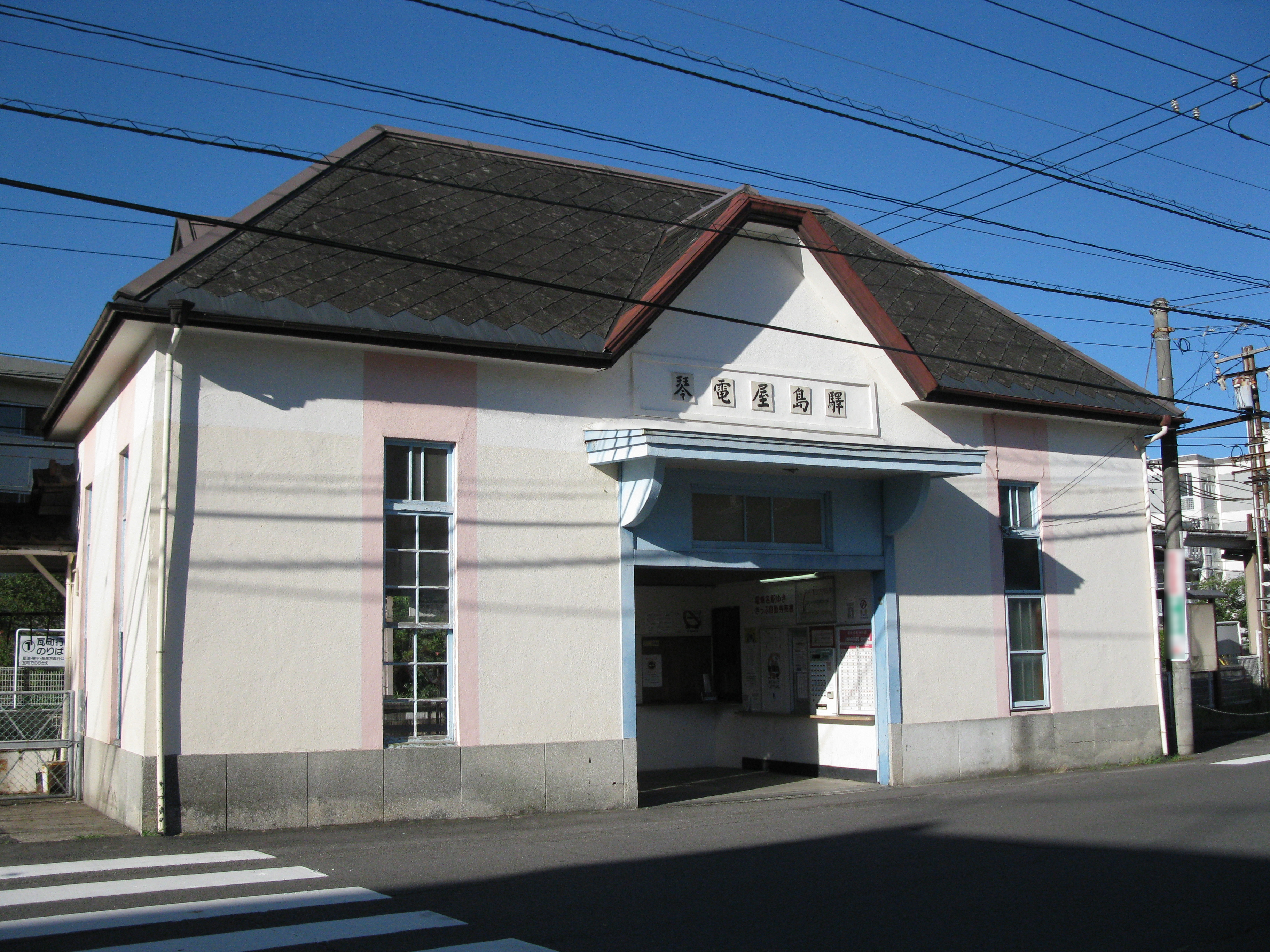 Kotoden-Yashima Station building (Takamatsu-Kotohira Electric Railroad(Kotoden) Shido Line)